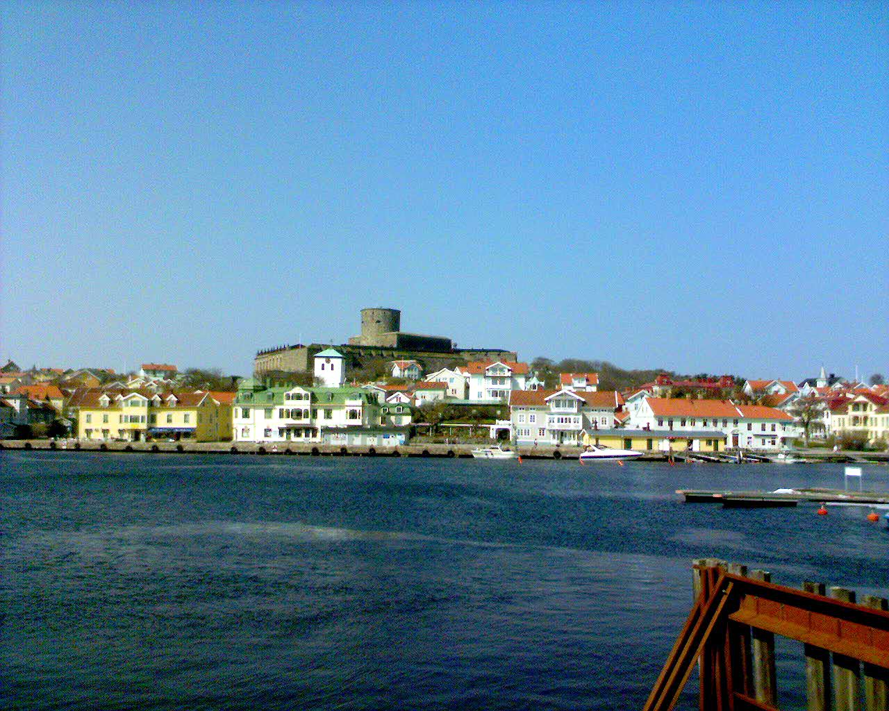 View of Marstrand from Koön, Bohuslän, Sweden.